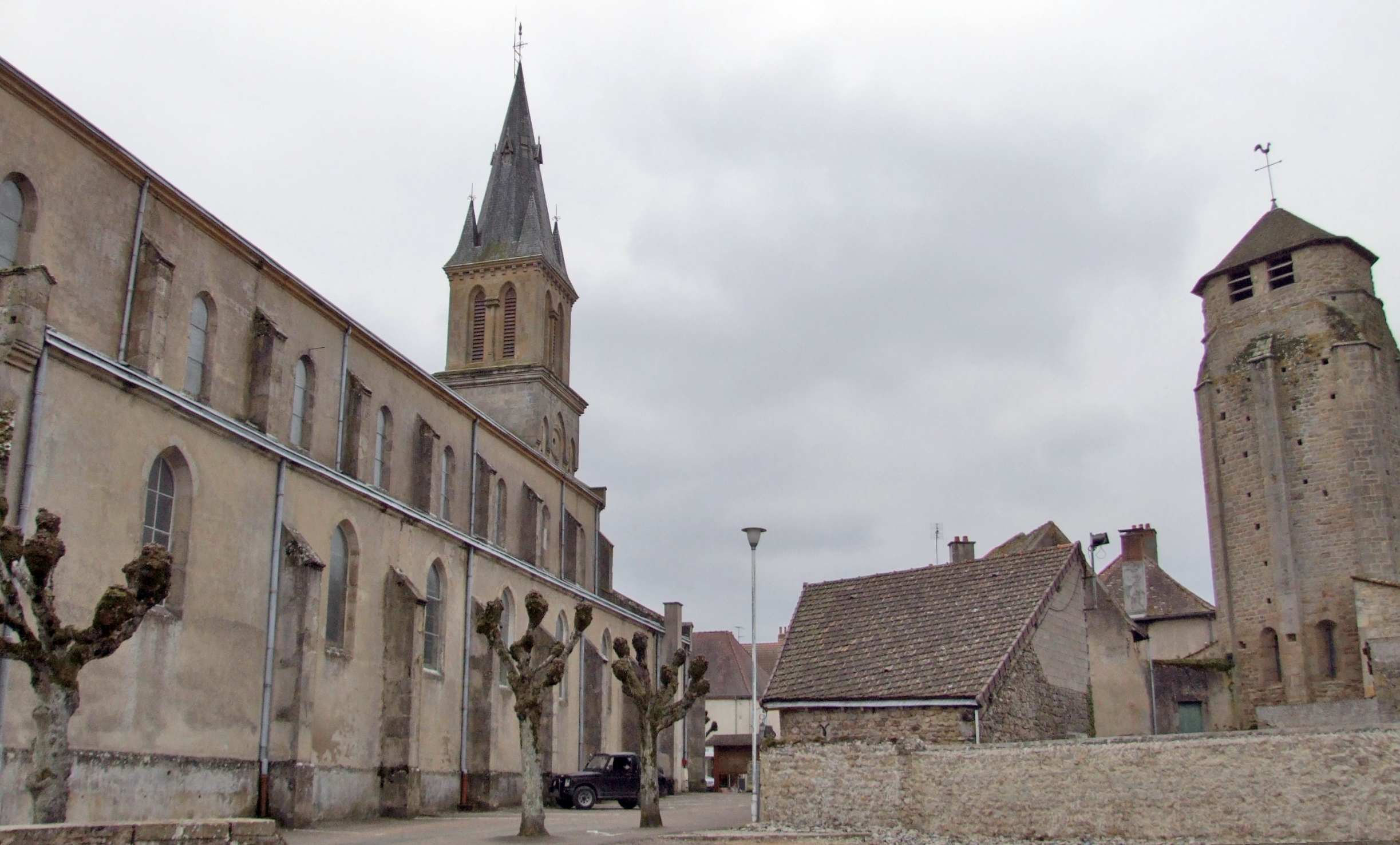 Toulon-sur-Arroux, Burgundy, FRANCE